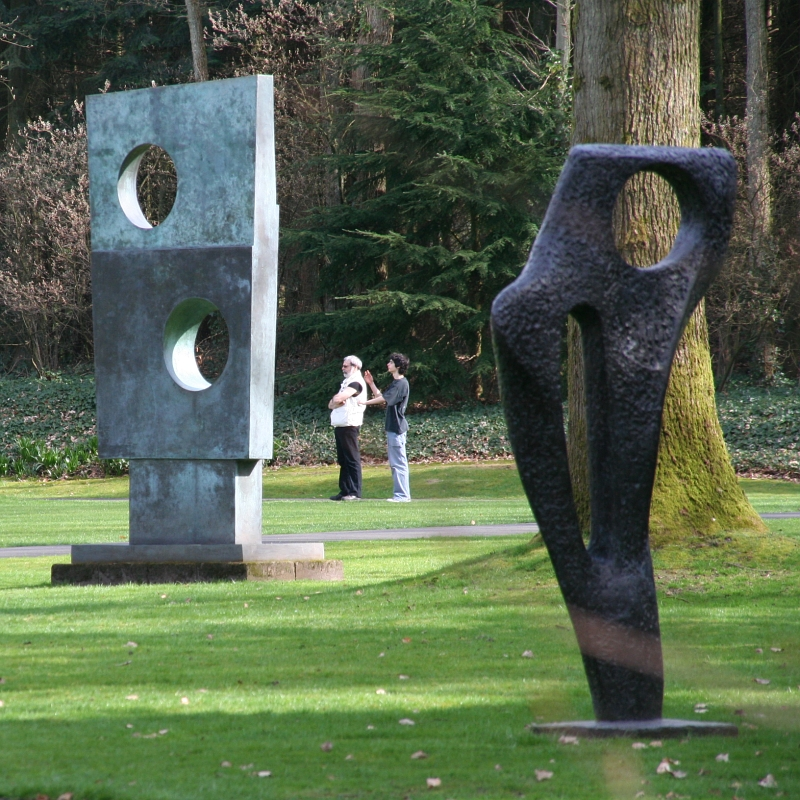 Sculptures by Barbara Hepworth in sculpturepark Kröller-Müller Museum/The Netherlands